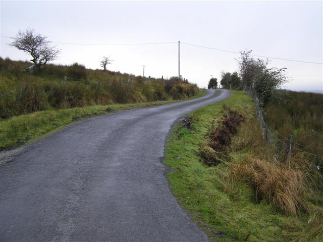 Road at Corratawy Heading south